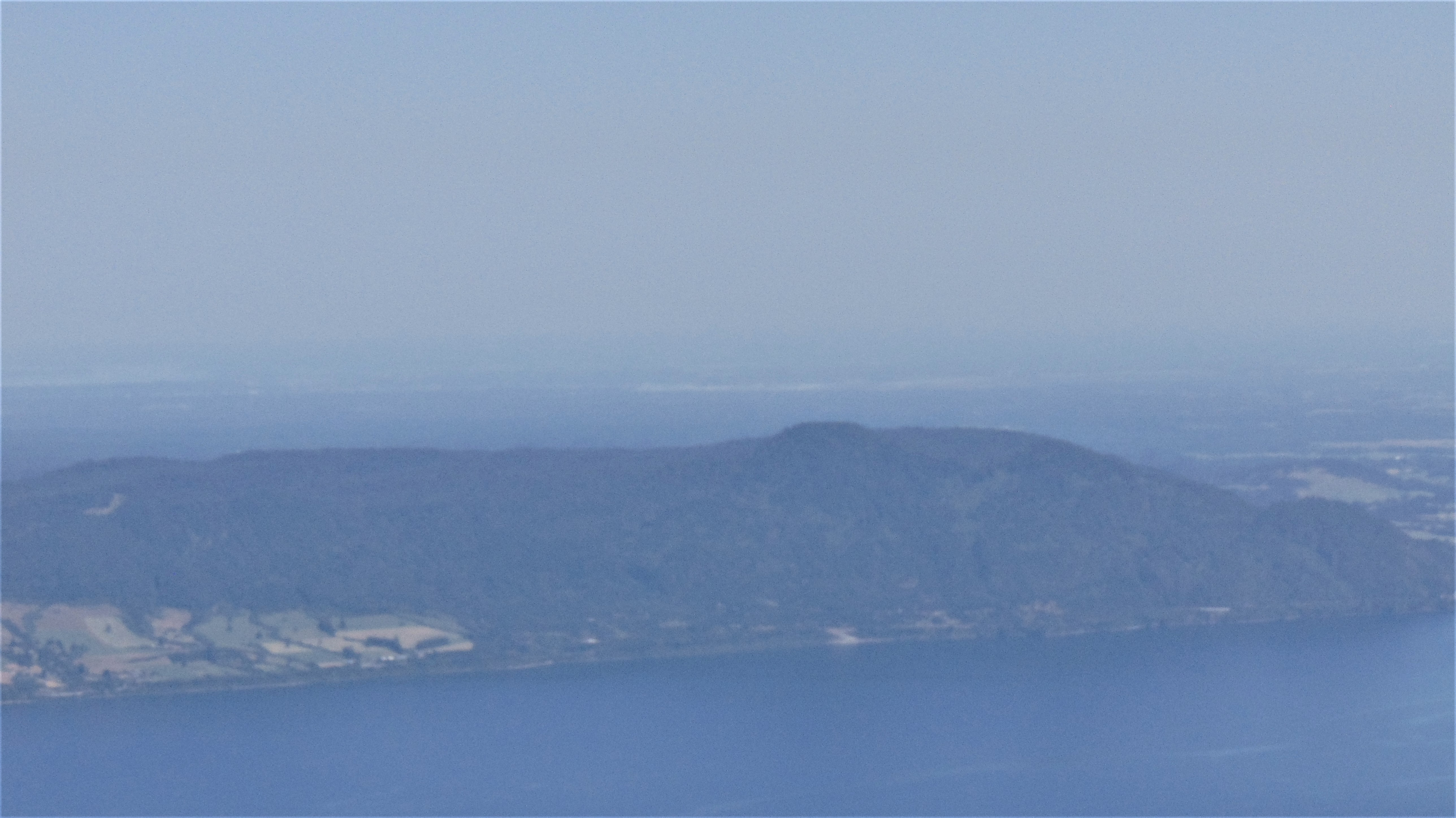 Los Riscos (Chile) from Osorno Volcano